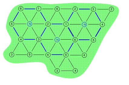 Six-phase array for electrical resistance heating.